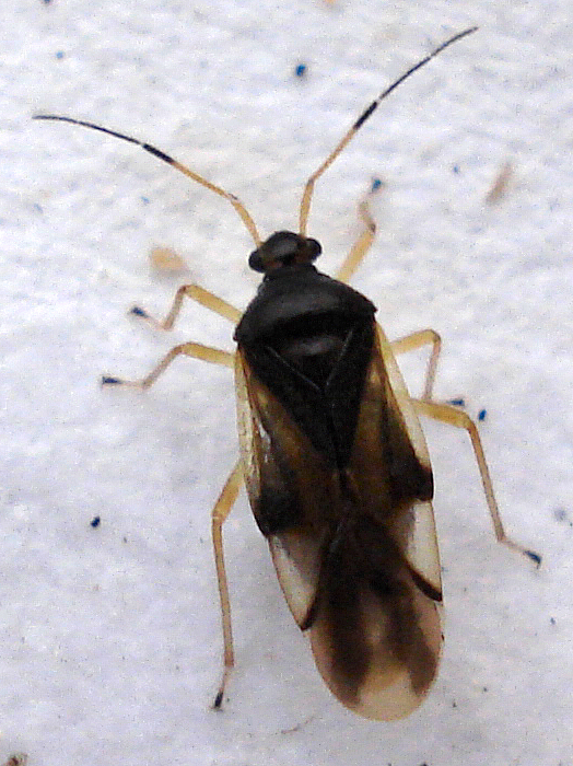 On: Fern Location: Lincoln City Site: Backies field